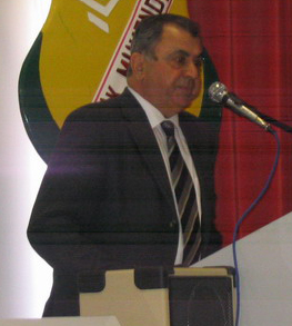 İrsen Küçük, the current prime minister of TRNC.